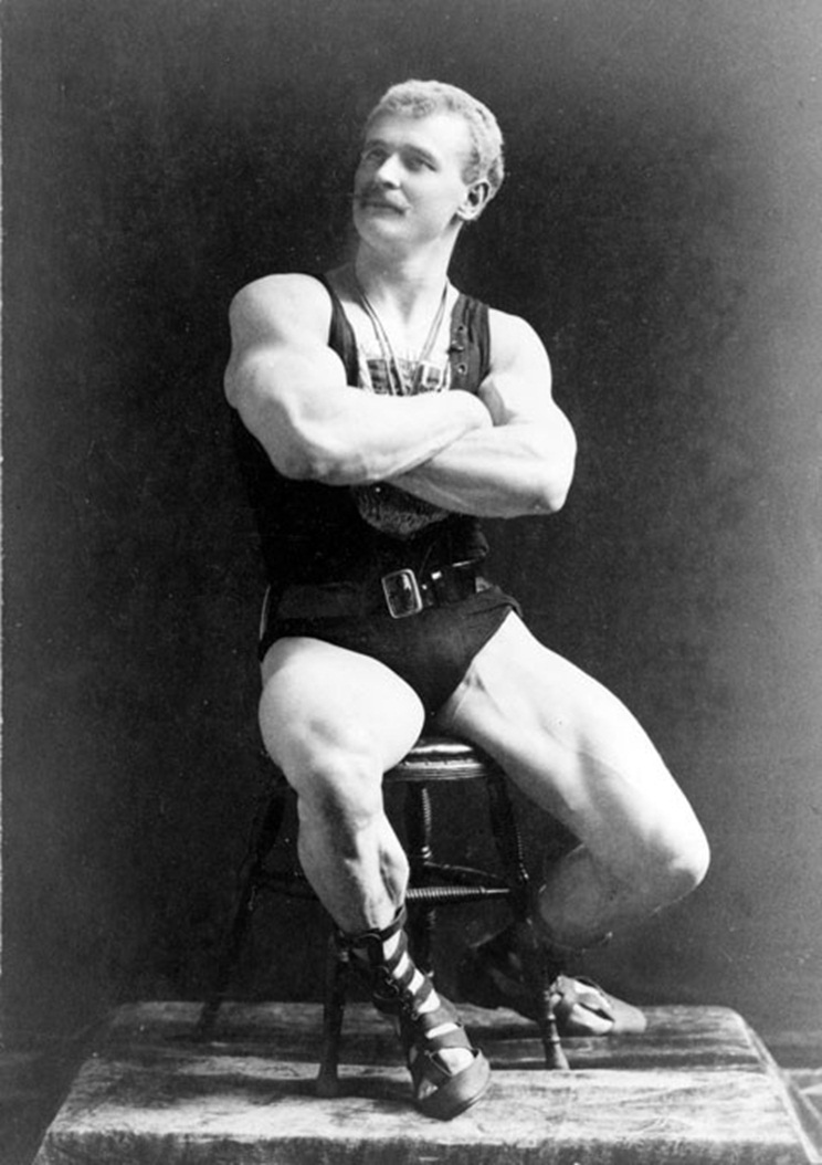 Portrait of strongman Eugen Sandow (1867-1925)